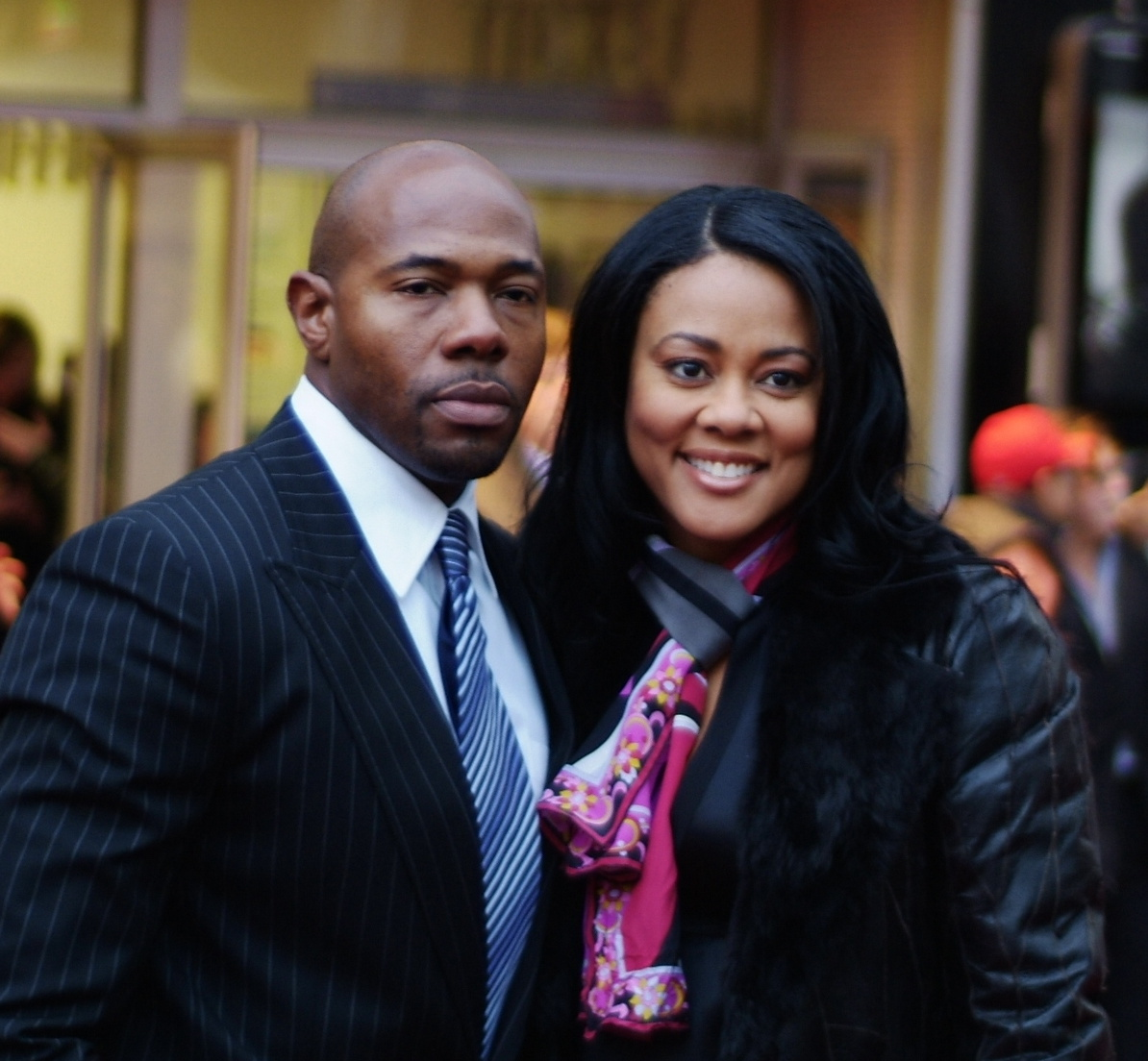 Antoine Fuqua with Lela Rochon at the Shooter Film Premiere in 2007.